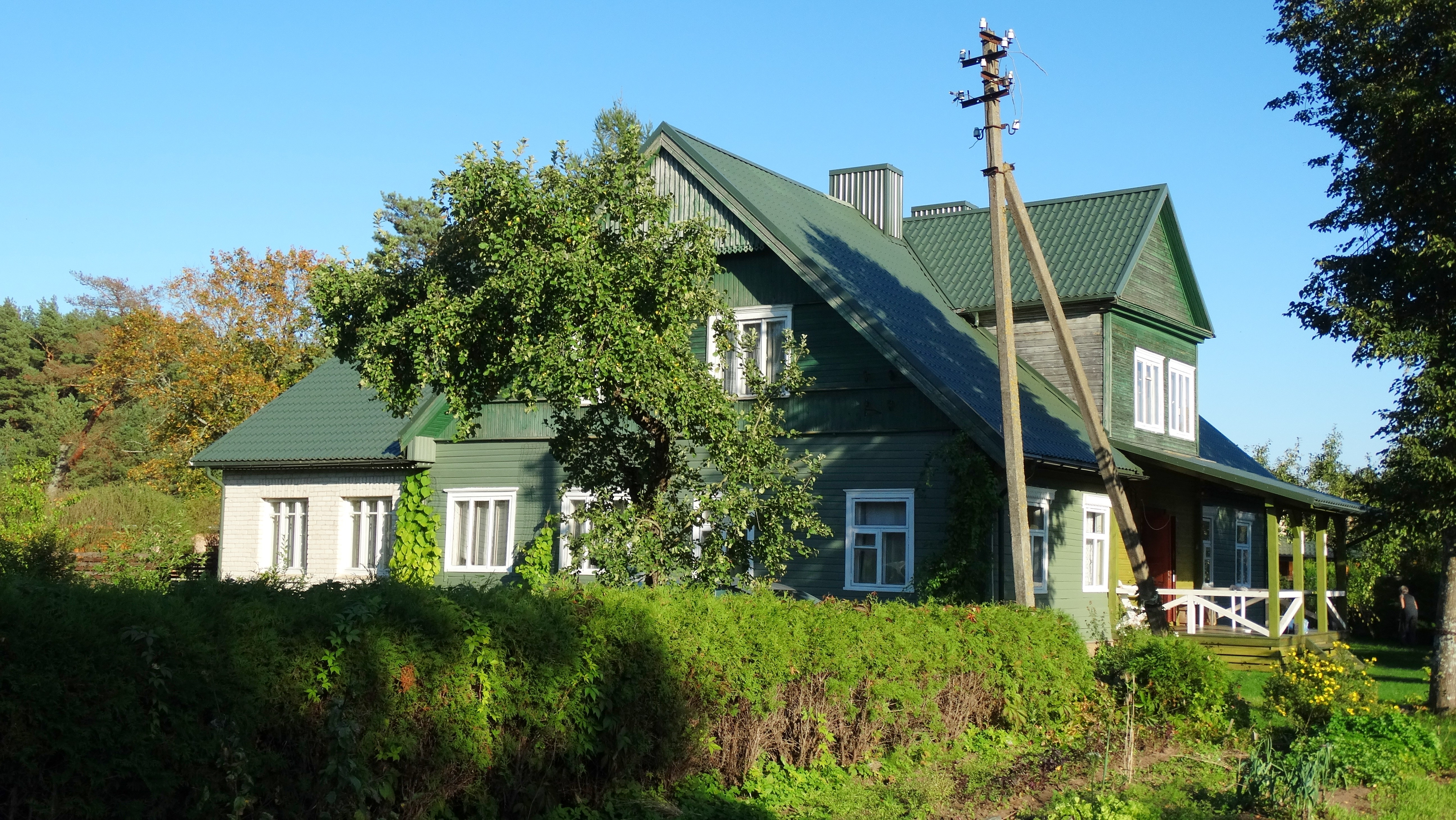 Žalioji, former school, Anykščiai District, Lithuania